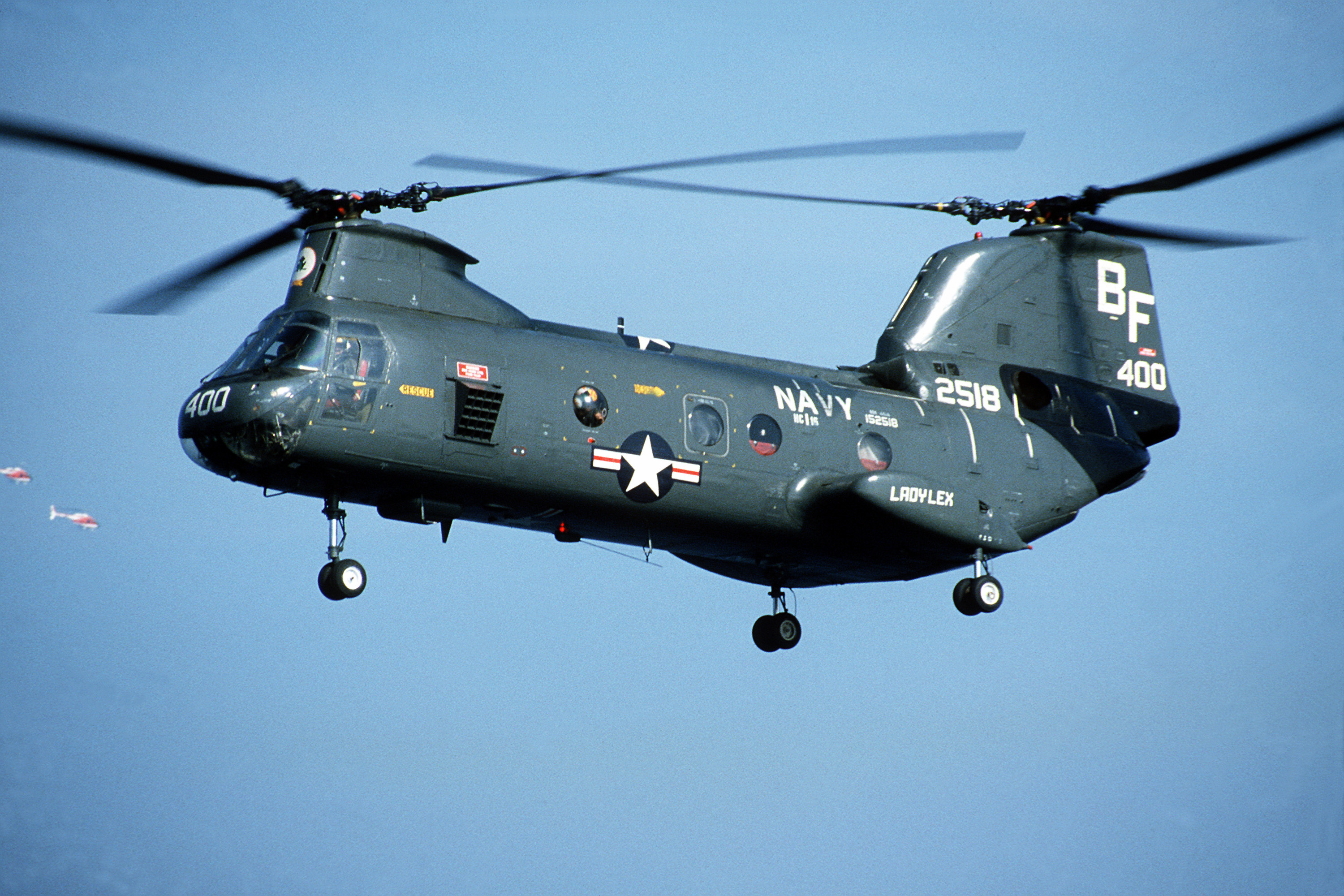 A U.S. Navy Boeing Vertol HH-46A Sea Knight helicopter (BuNo 152518) from Helicopter Combat Support Squadron 16 (HC-16) hovers above the training aircraft carrier USS Lexington (AVT-16) during a search and rescue mission, in 1984.